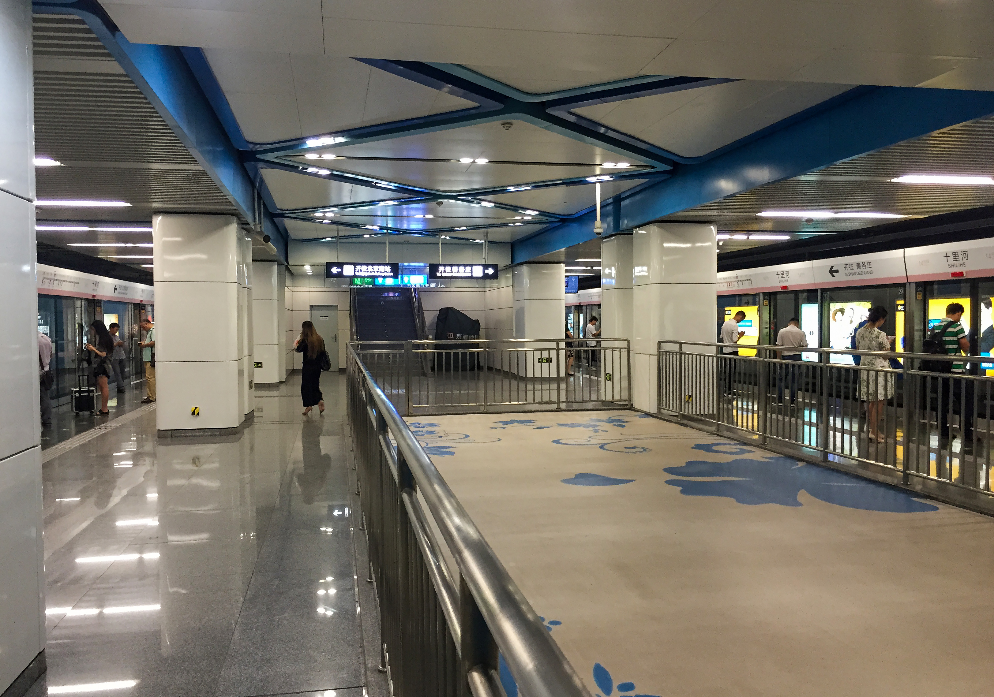 Something is reserved on the platform. The way to L17?